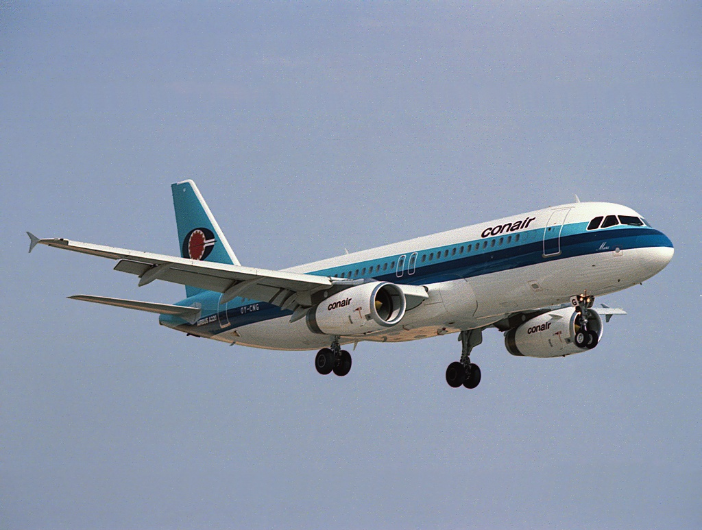 Conair of Scandinavia Airbus A320-231 OY-CNG at Faro Airport